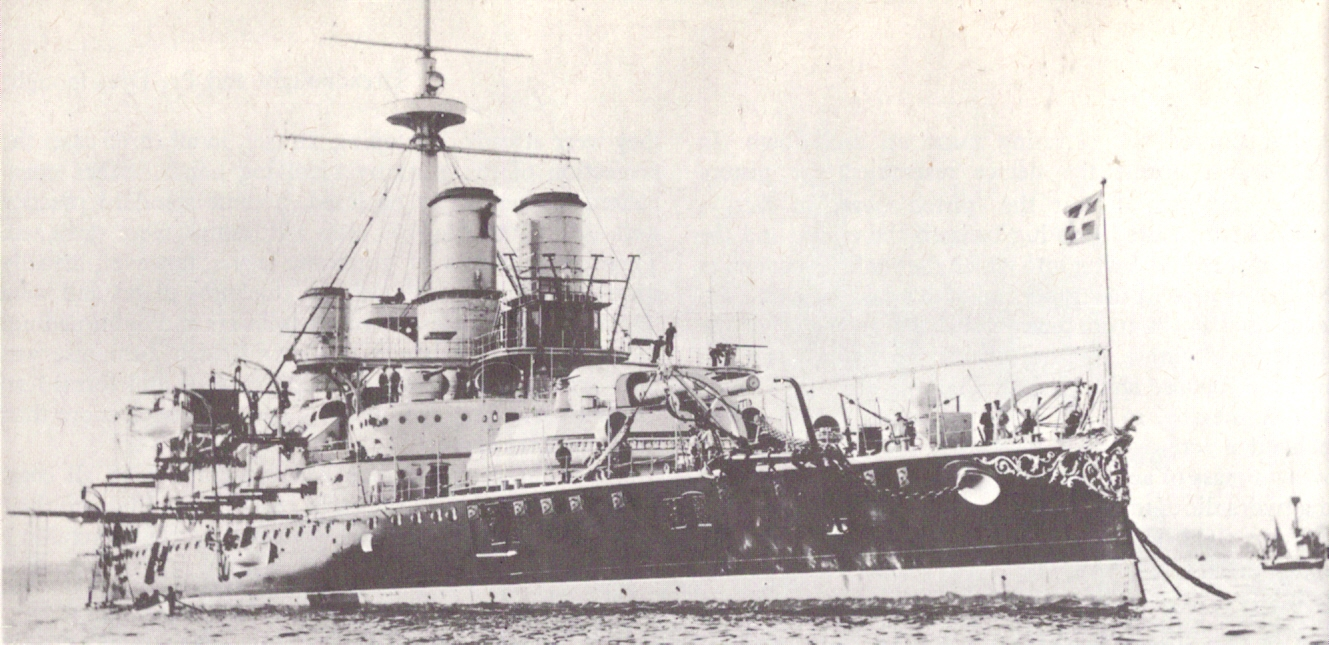 The Italian battleship Sardegna